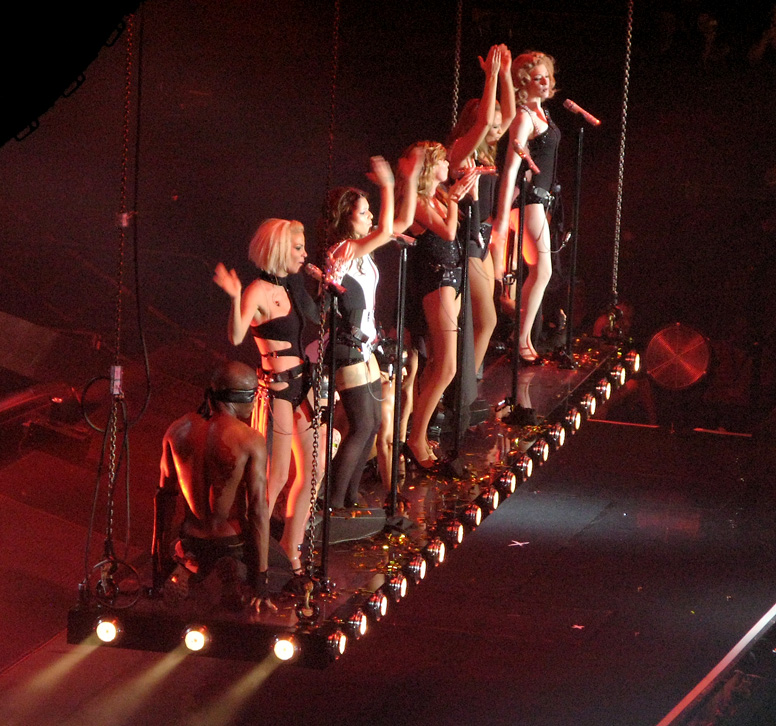 27th May Wembley Arena